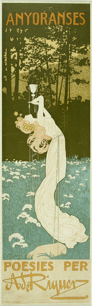 Anyoranses. Poesies per A de Riquer by Alexandre de Riquer; Modernisme